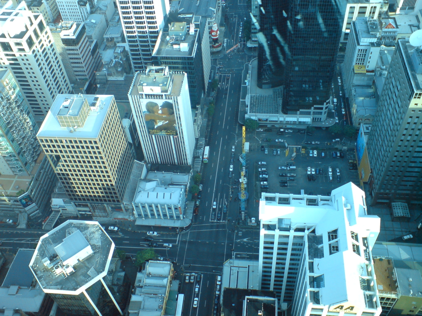 The proposed site (empty lot in the upper right hand of the image) for the Elliot Tower skyscraper in the Auckland CBD, New Zealand.